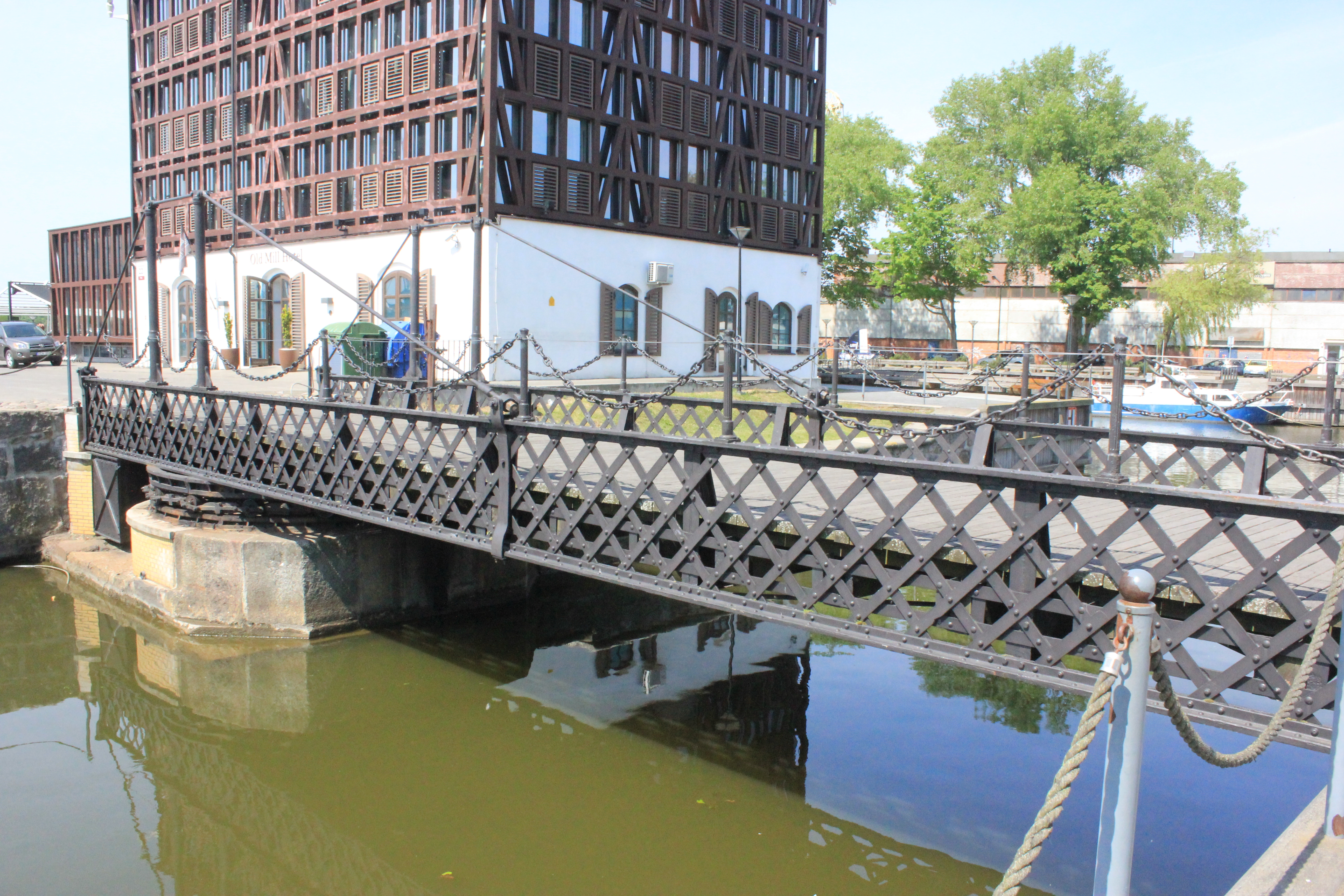 Klaipėda - swing bridge